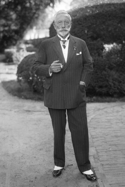 Emperor Wilhelm II of Germany in exile at the Dutch manor of Doorn, in civilian clothes and with a cigarette